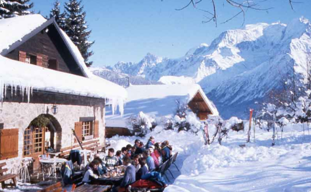 Chalet Remy